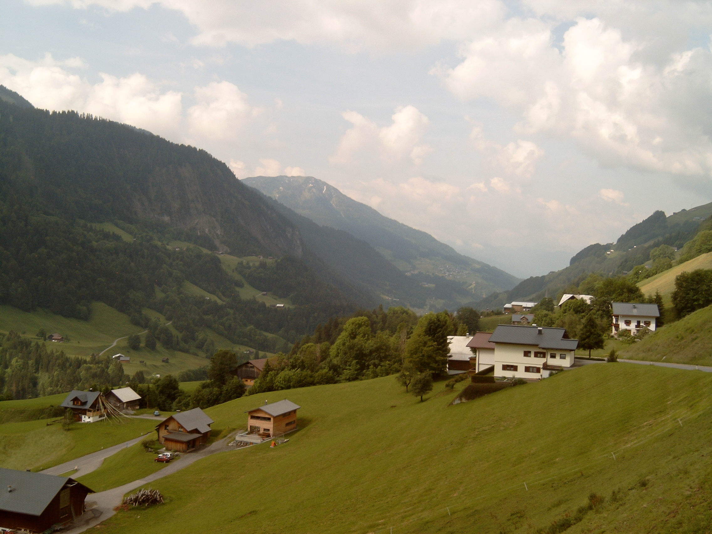 between Sonntag and Uberbuchholz, panorama